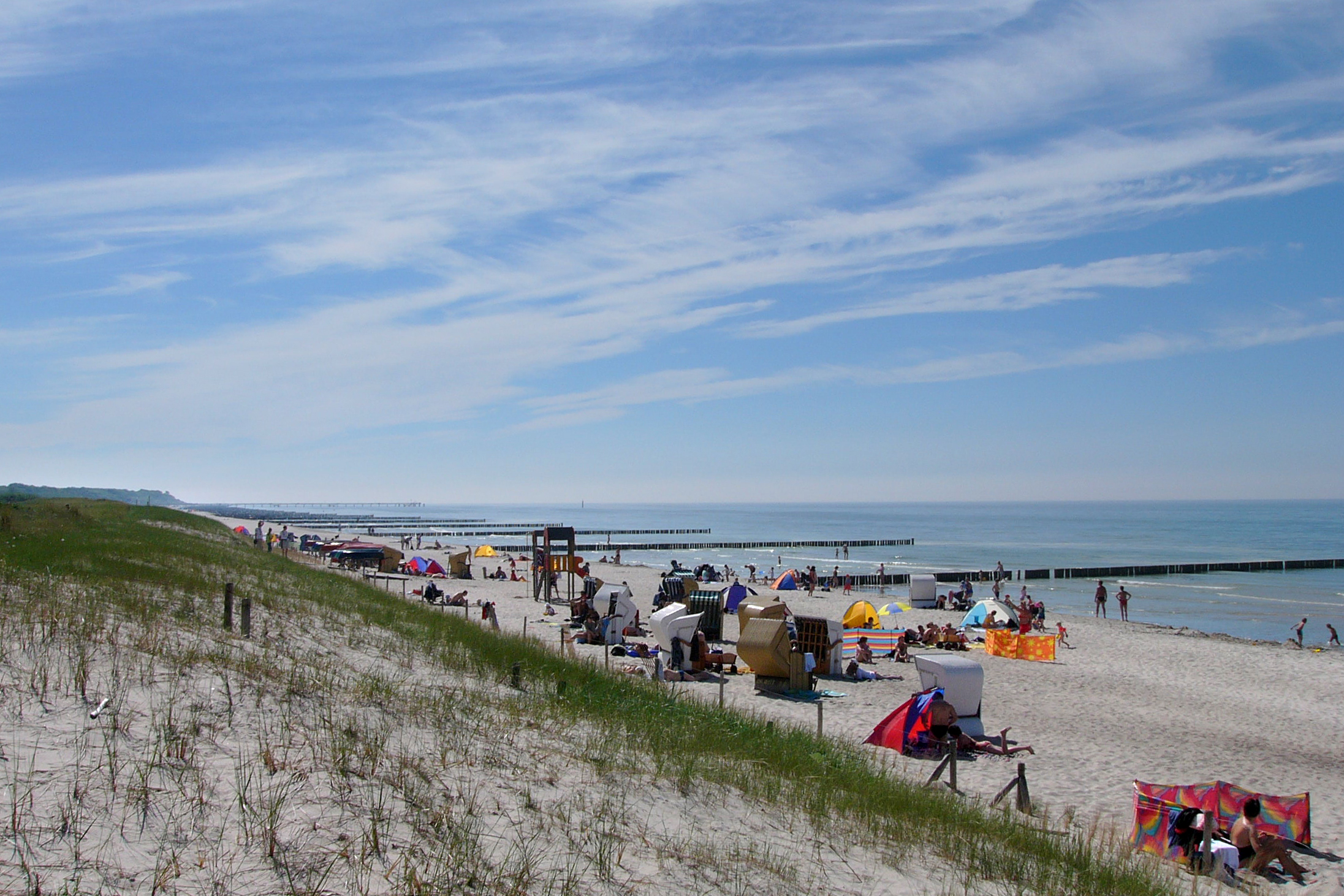 Beach of Dierhagen, Mecklenburg-Vorpommern, Germany.